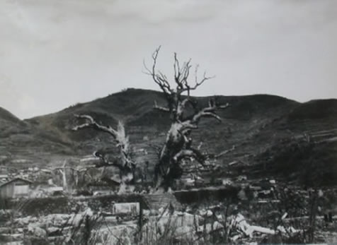 Sannō Shrine, Nagasaki: This image shows the shrine's surviving camphor trees in naked silhouette, 1945 Context note:One of the two pillars of the Sanno Shrine Torii was toppled by the A-bomb blast. The blast also blew away the branches and leaves of the two camphor trees in the precincts of the Shrine, which were then more than 500 years old. At that time, it was feared that the trees might wither and die; however, they gradually began to recover, and now are thickly covered with leaves and branches.